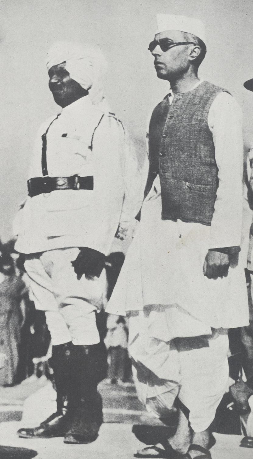 Jawaharlal Nehru as President of the Lucknow session of the Congress, April 1936. With him is Dr. Sampurnanand